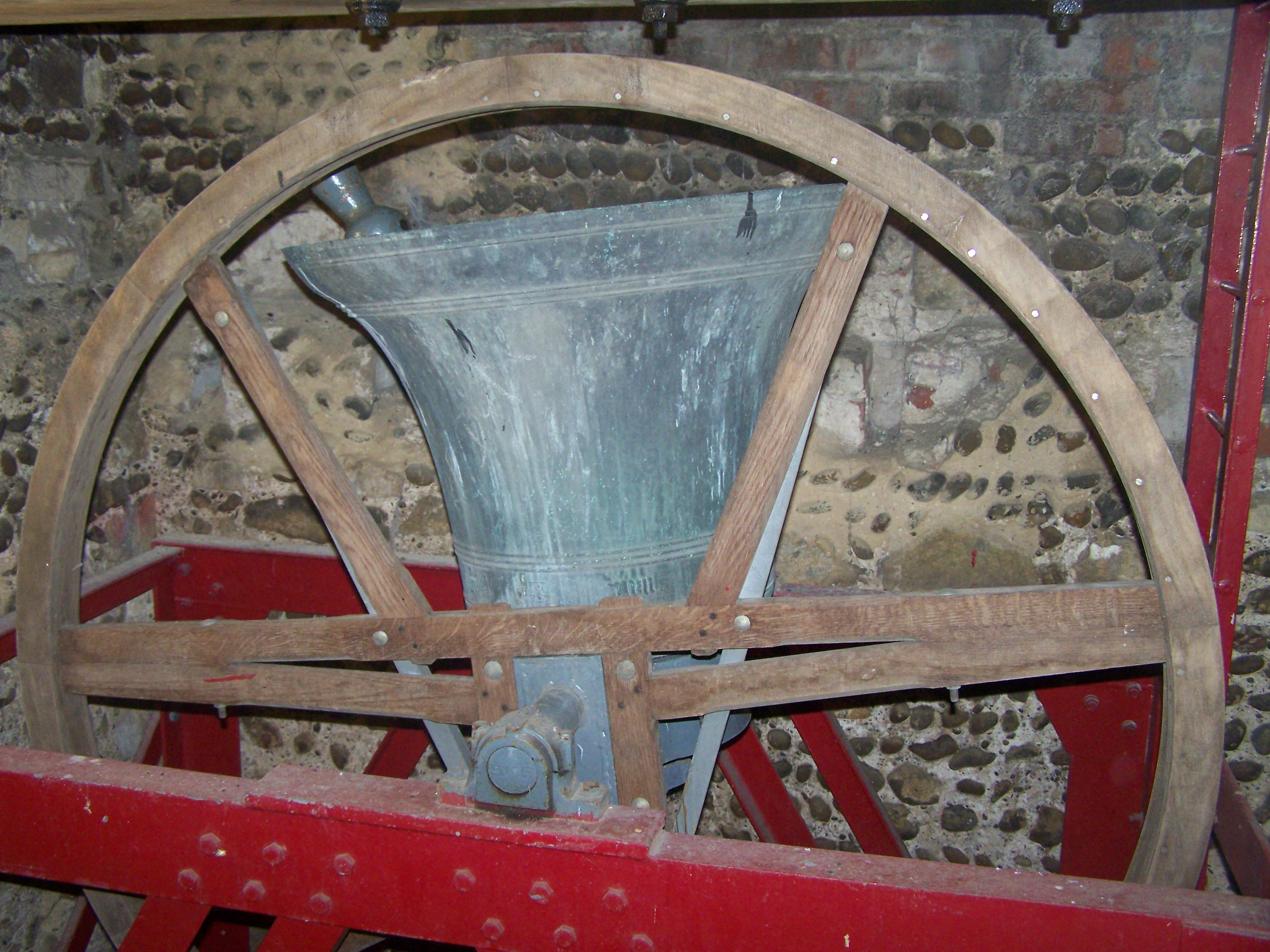 'Gabriel', one of the six bells in the west tower of the parish church of St Margaret of Antioch, Reydon, Suffolk. The bell is in the 'up' position, set ready for ringing.